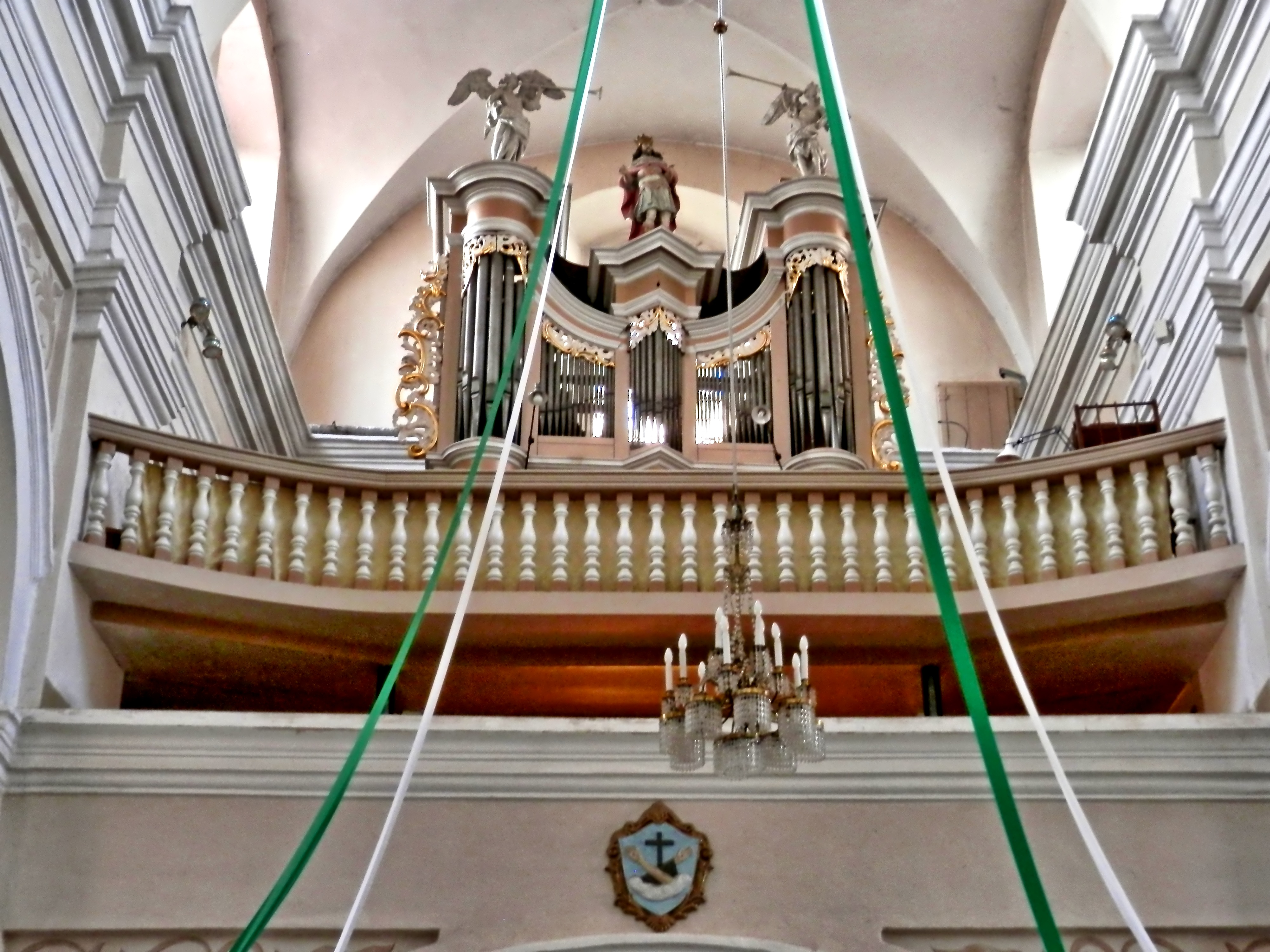 Franciscan church of St. Mary of the Angels in Hrodna